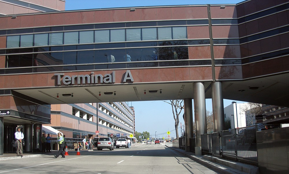 The loading/unloading area at Terminal A at San Jose International Airport in San Jose. The bridge links the terminal proper (on the right) to the attached parking garage (on the left).